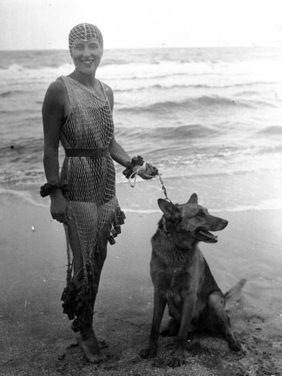 French singer Suzy Solidor(1900-1983) on the beach at Deauville.